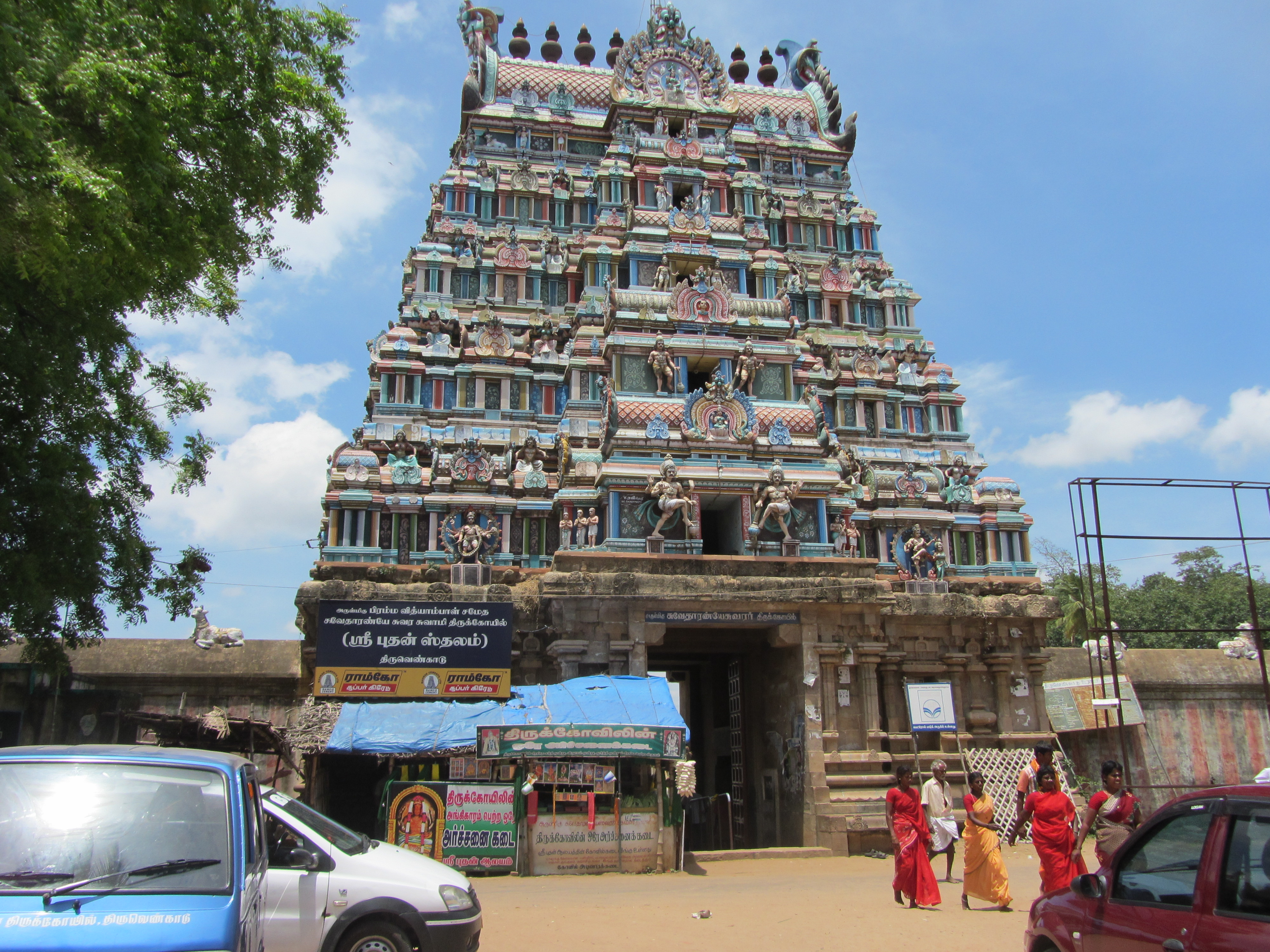 Thiruvengadu temple, Tamilnadu. Seat of Lord Mercury, one of Navagraha lords.